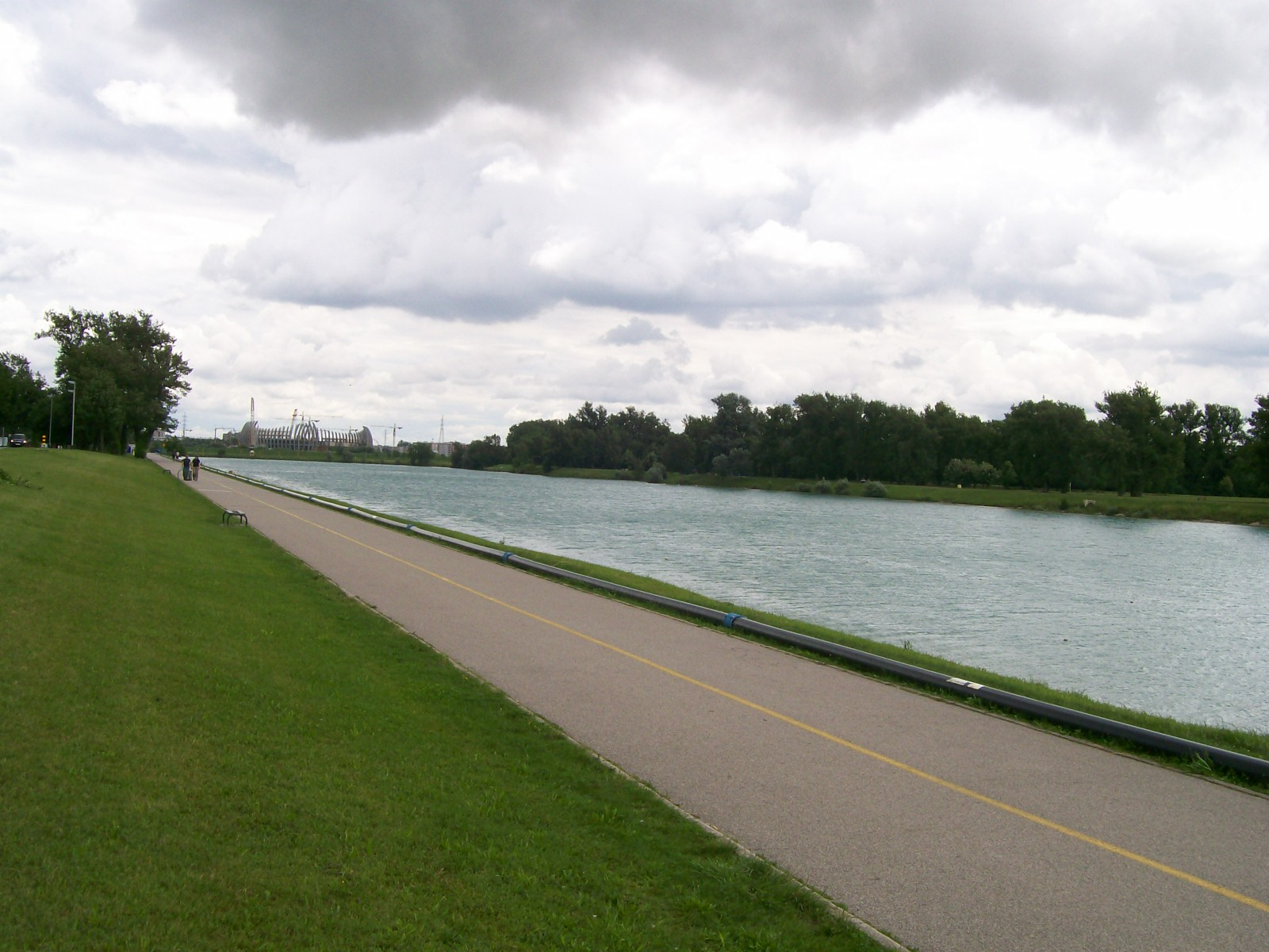 Lake Jarun